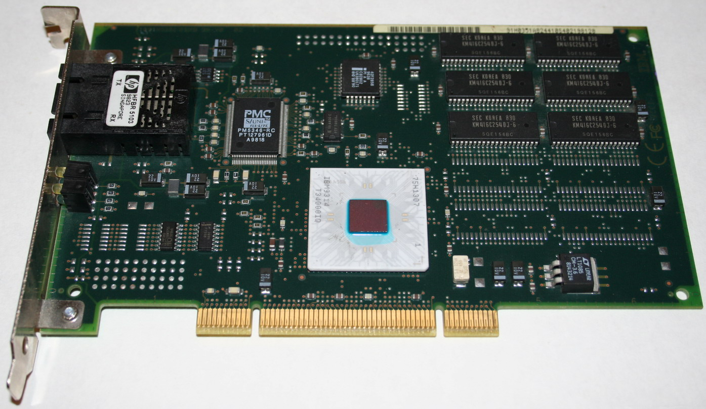 IBM Turboways ATM 155 PCI network interface card. Photographed by Roberto Amorim